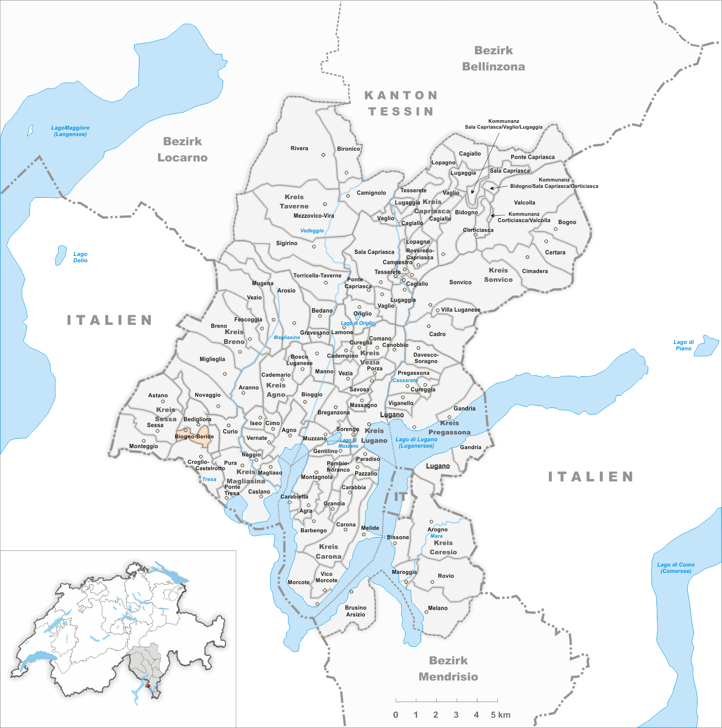 Municipality Biogno-Beride Artist: Tschubby